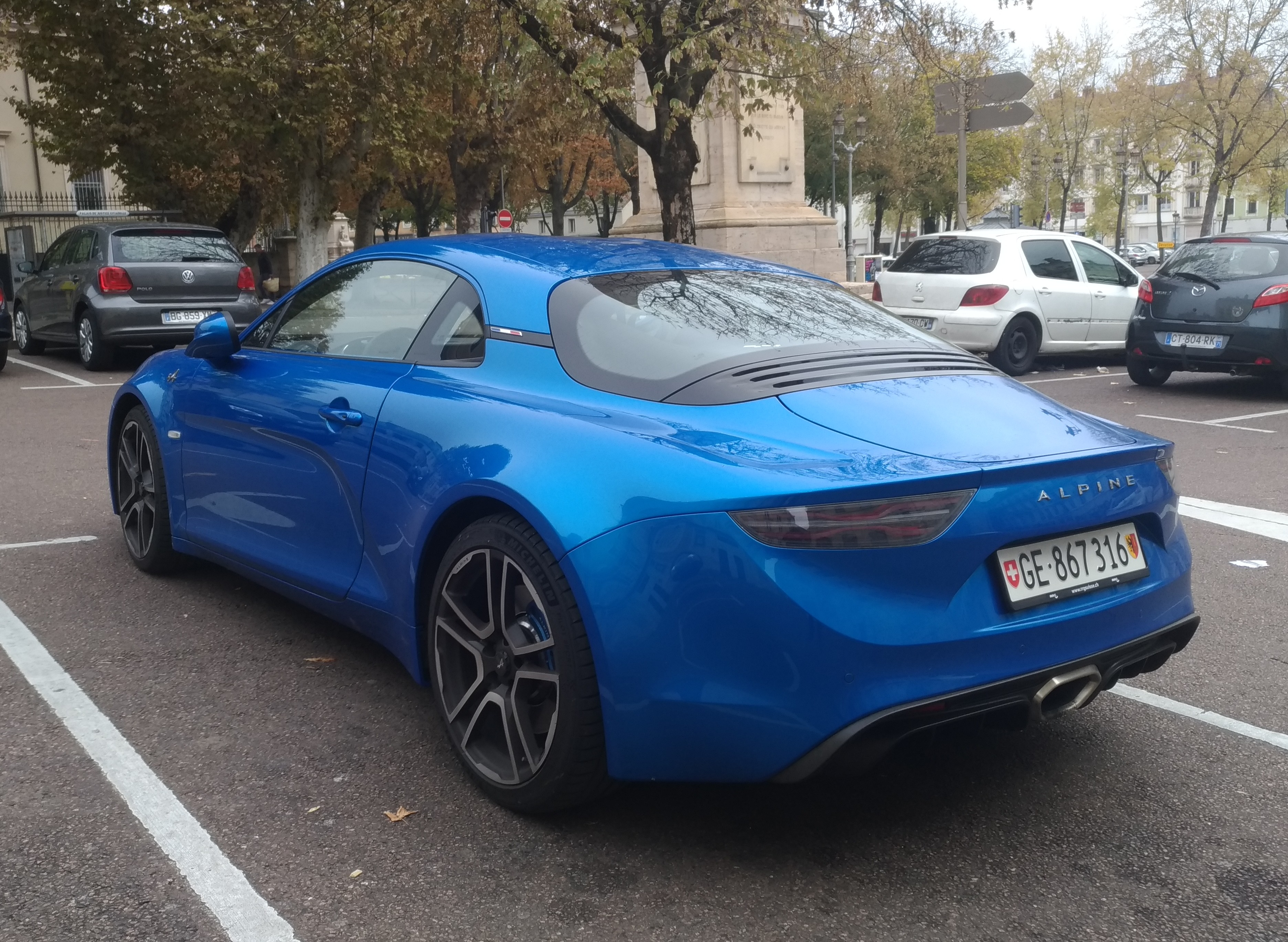 2018 Alpine A110 (1.8 250 hp) at Chalon sur Saône